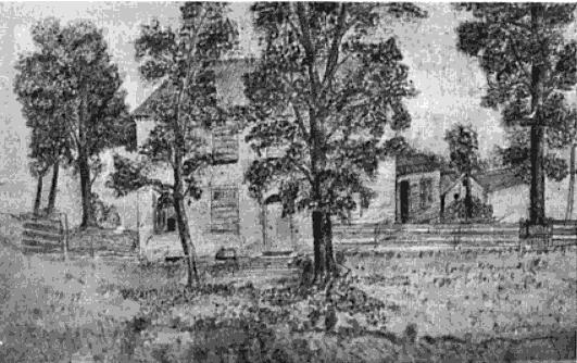 drawing of the home of Jonathan Jennings, 1st Governor of Indiana, c 1820